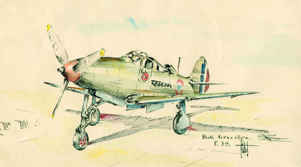 P-39 Airacobra of Fighter Squuadron 3/3 "Ardennes". Scan of a personal sketch